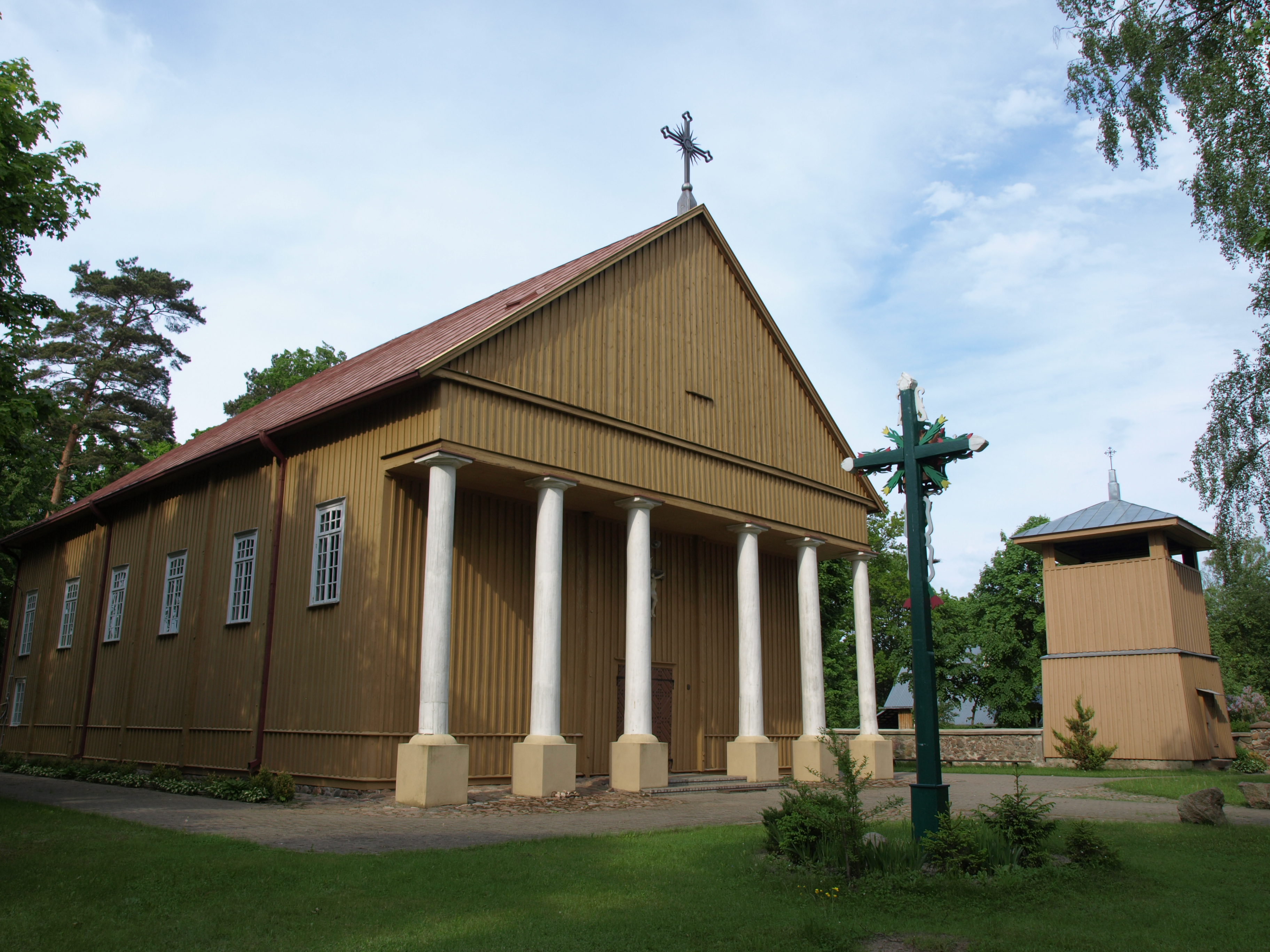 Rumbonys church, Alytus district, Lithuania